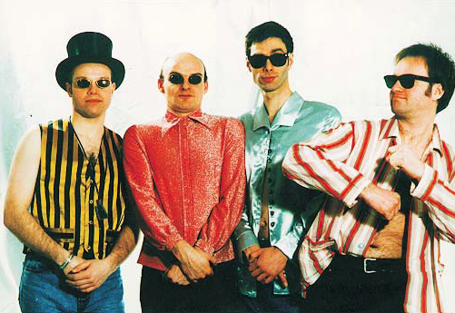 Cosmo zaloom, pop musical group from Germany